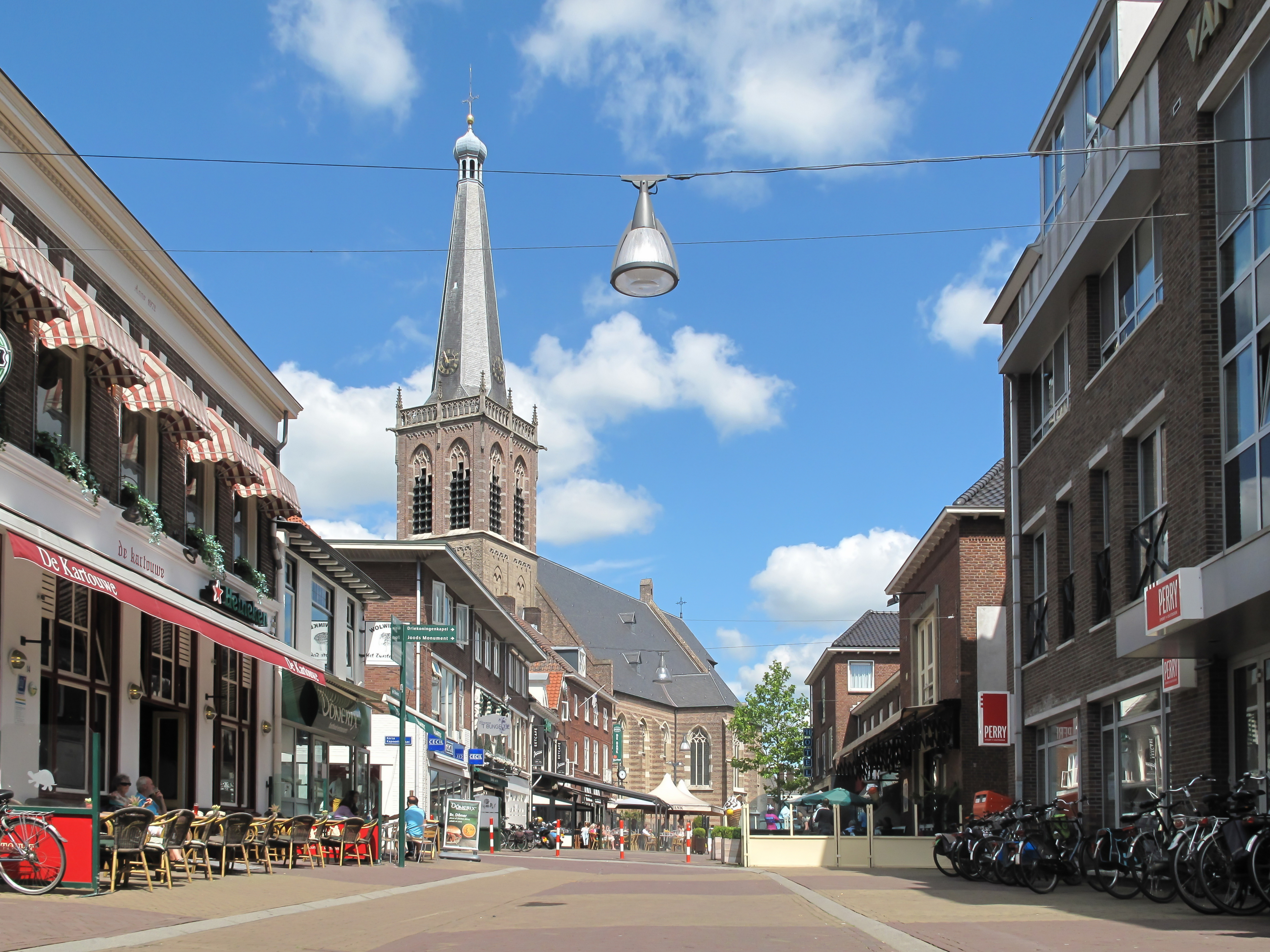 Doetinchem, church (Sint Catharinakerk RM13084) in the street